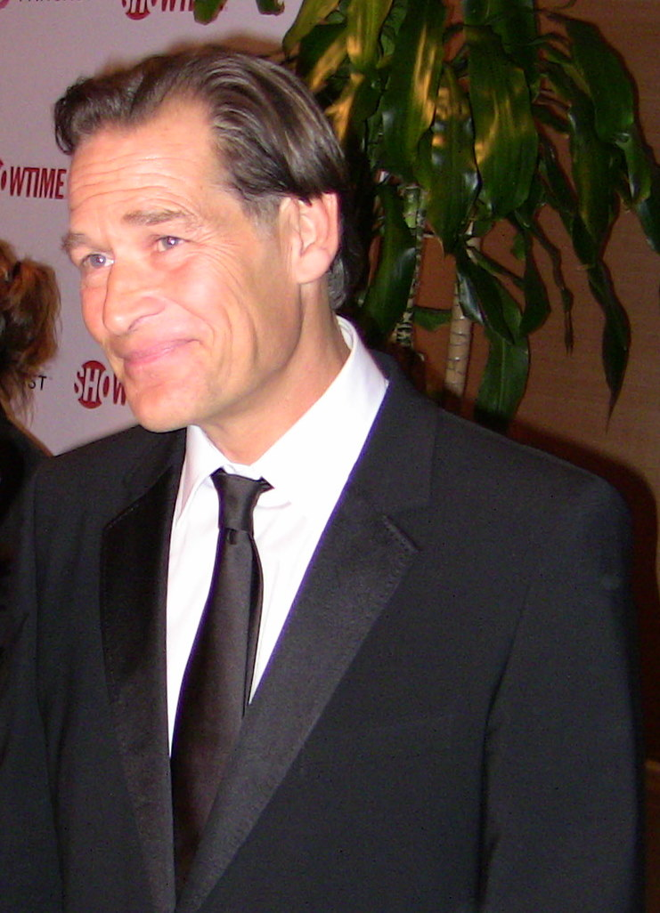 Actor James Remar at a 2009 Golden Globe Awards party.